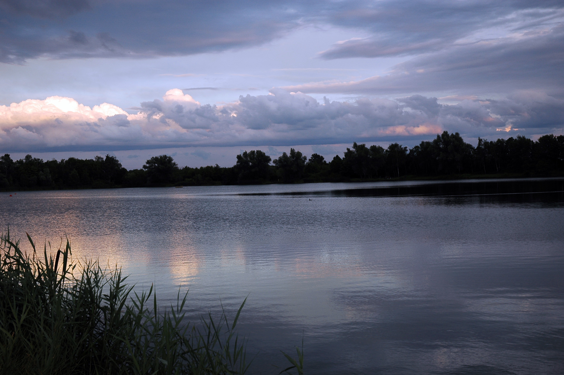 Pond of Lambsheim.